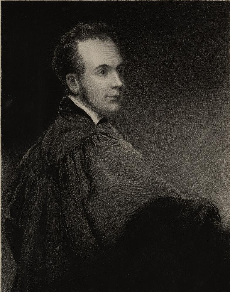 A portrait from the Welsh Portrait Collection at the National Library of Wales. Depicted person: Edward Pryce Owen – painter